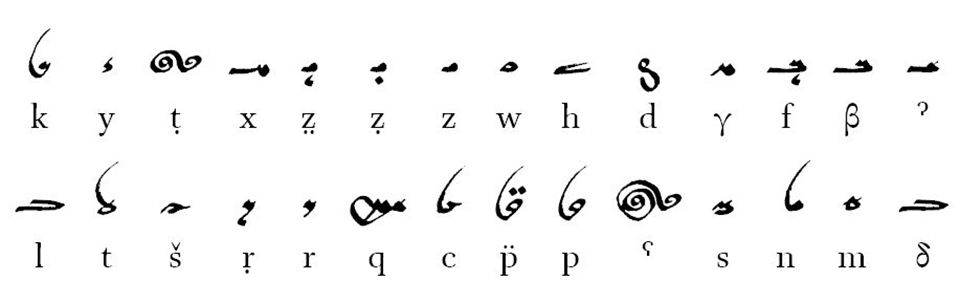 Sogdian alphabet